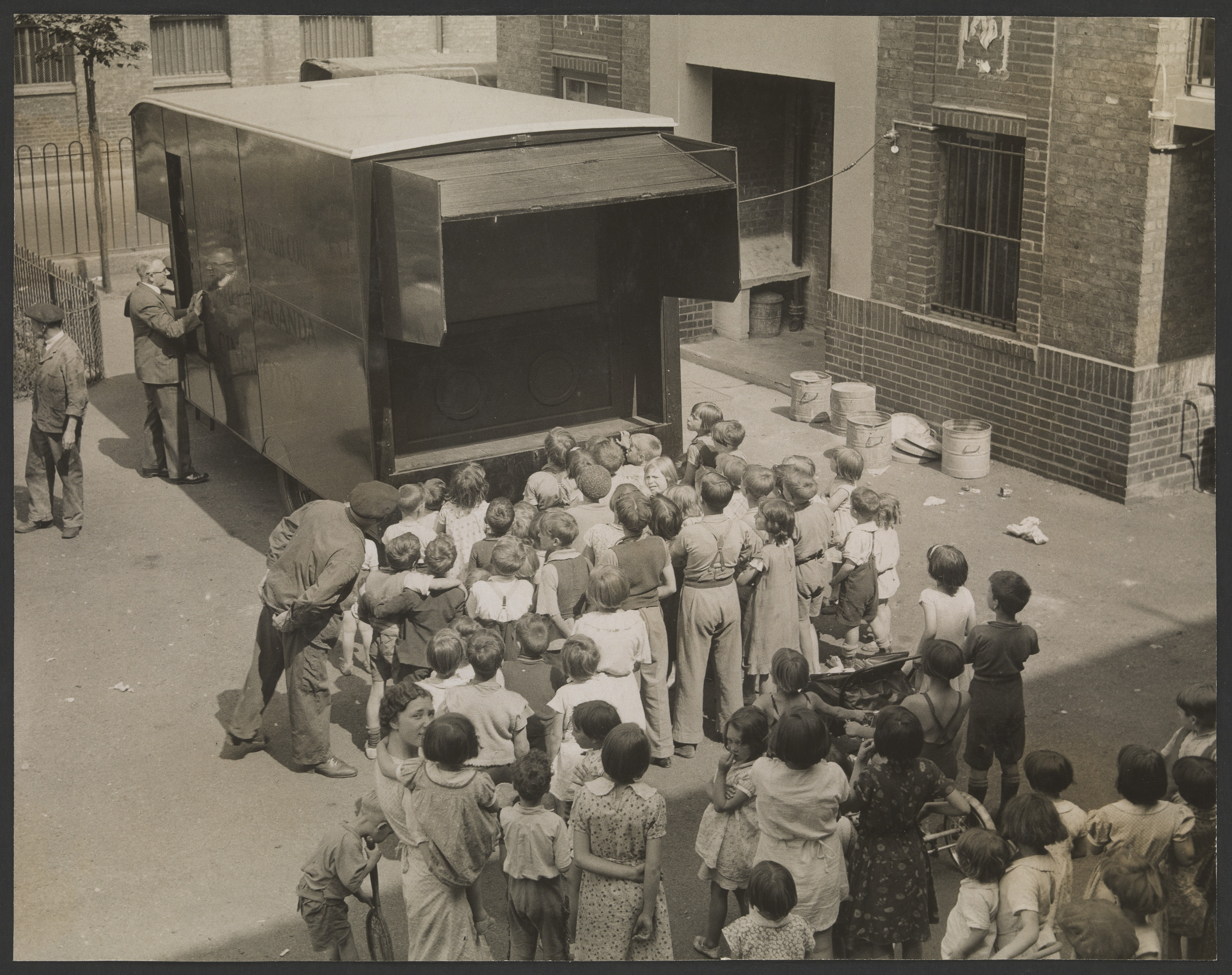 Public Health cinema van, Bermondsey. 1937. Credit: Southwark Local History Library and Archive. Medical Photographic Library